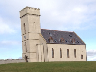 modernised Pitfour Chapel, Aberdeenshire, listed building